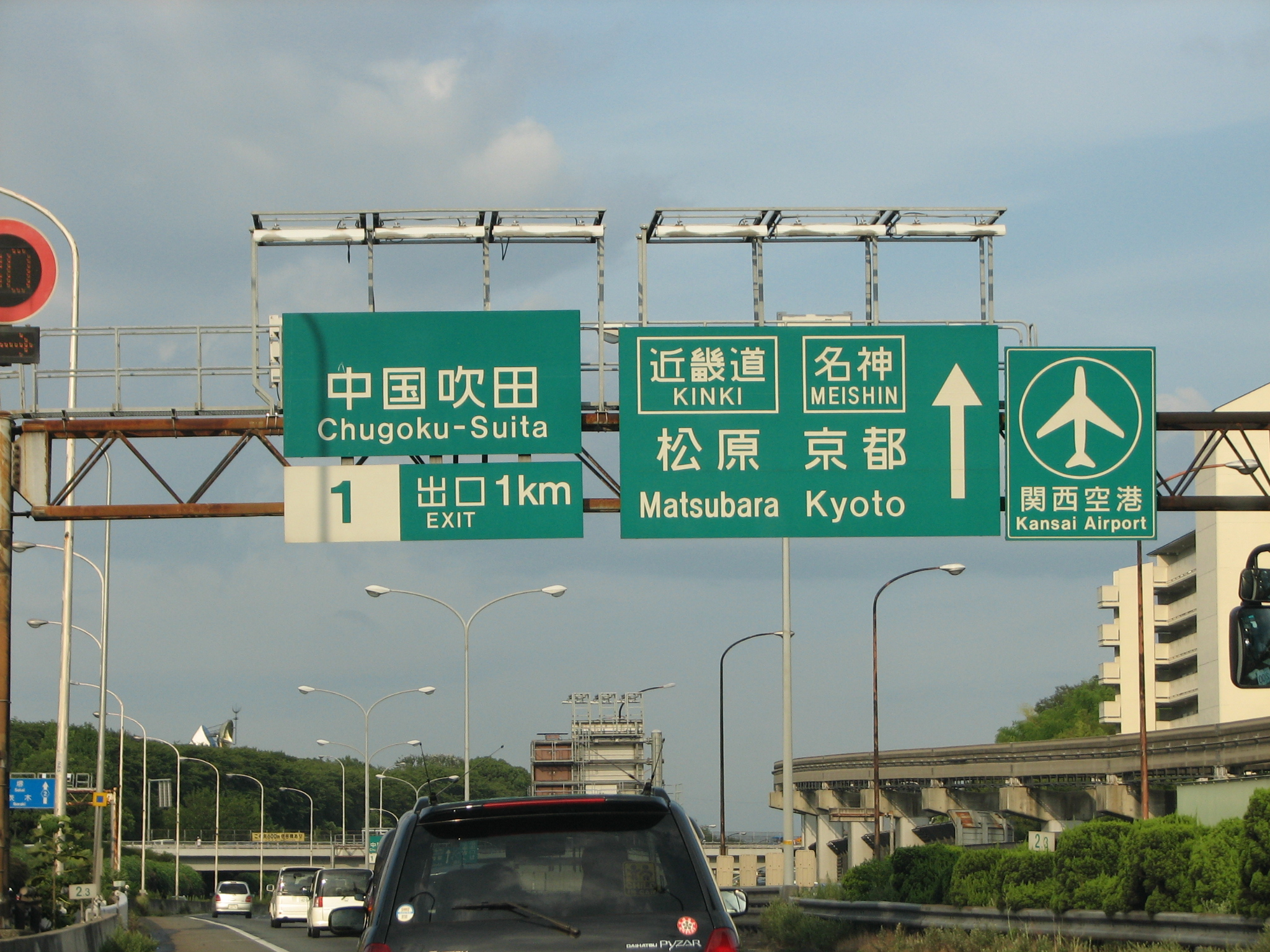 Chugoku-Suita IC